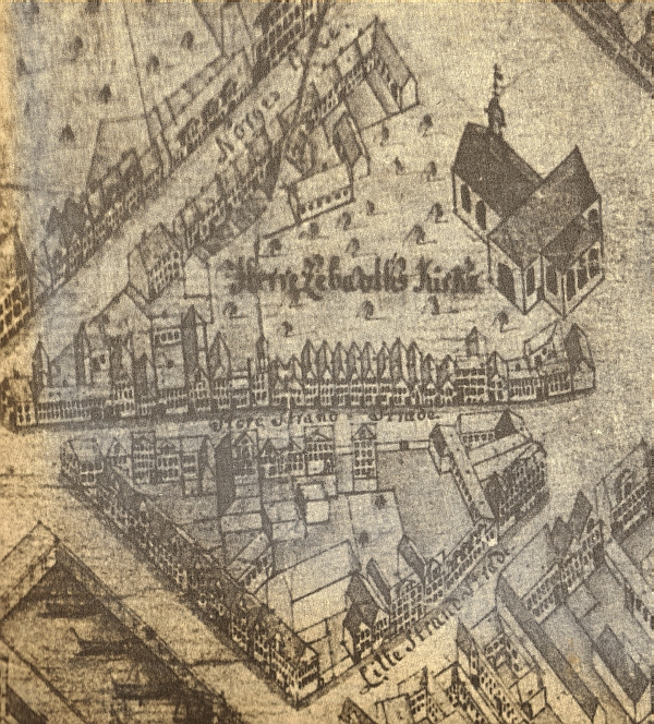 Store Strandstræde seen on map detail from Gedde's 1761 map of Copenhagen, Denmark